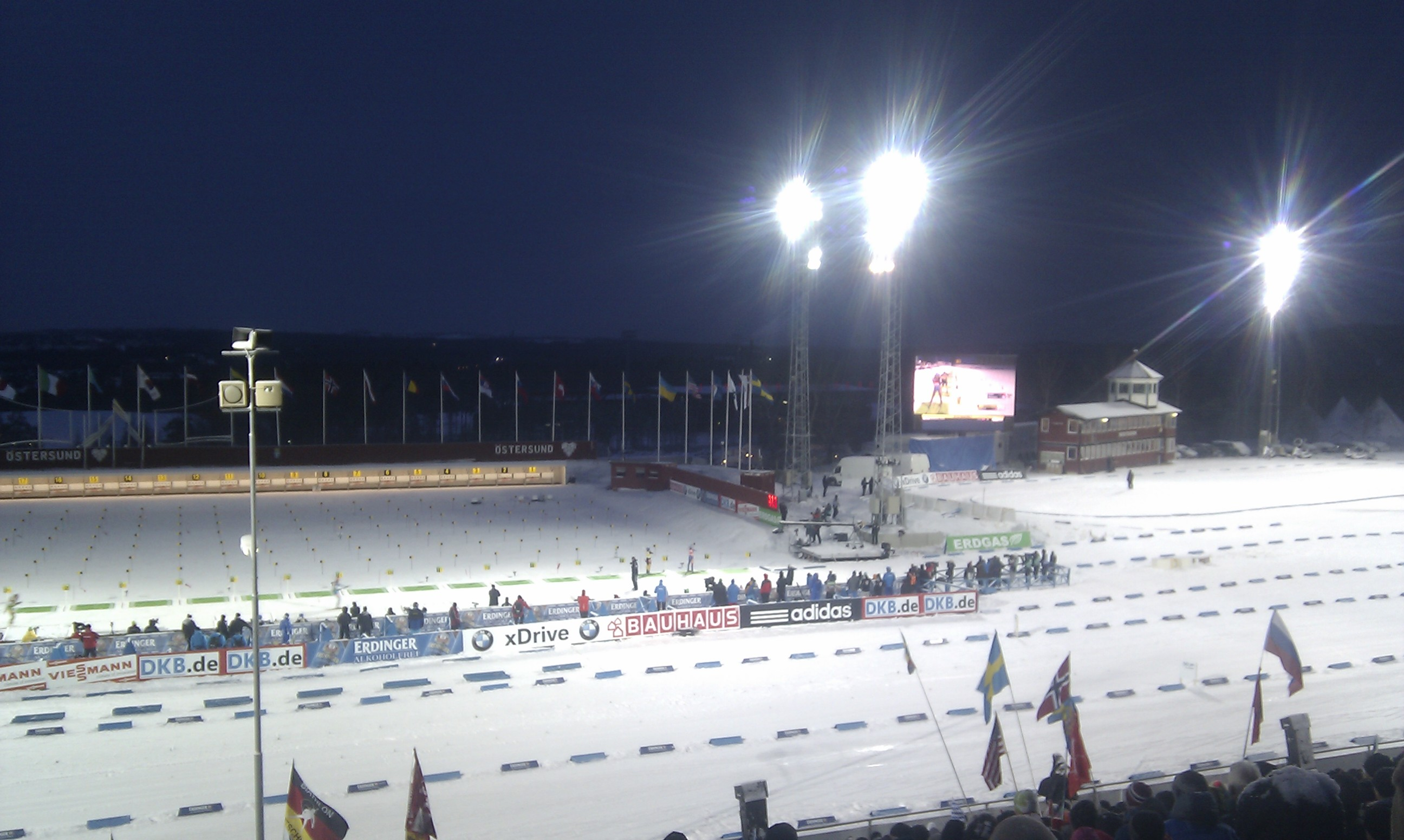 Womans pursuit at Biathlon World Cup in Östersund